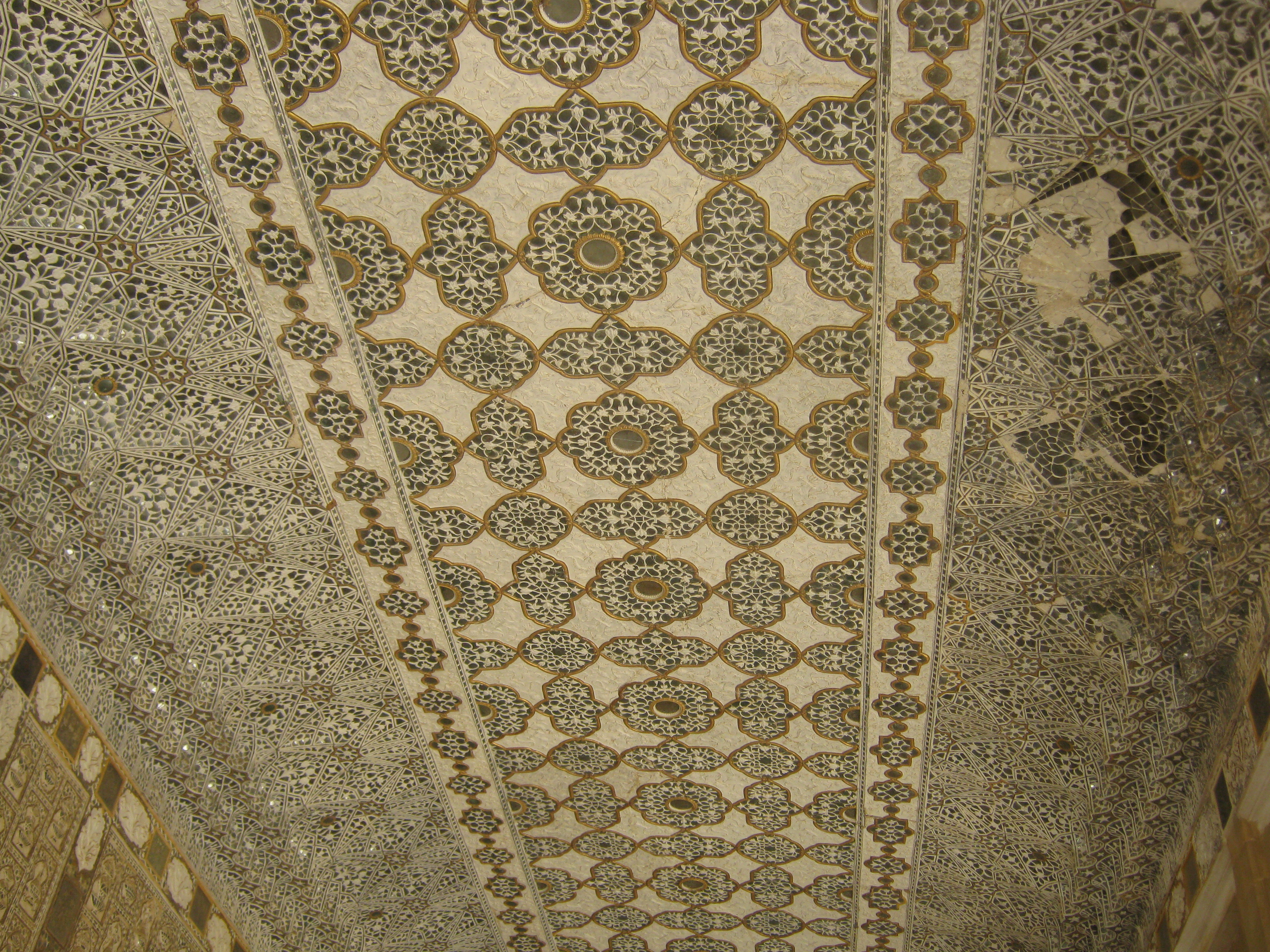 A pic of Hindu art from City Palace (Jaipur), Rajasthan in India.